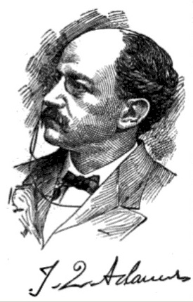 Illustration of John Quincy Adams which accompanied his biography in 1900's Lamb's Biographical Dictionary of the United States, Volume 1.